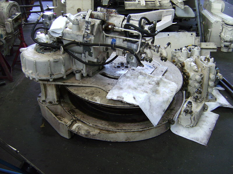 Hydraulic winch